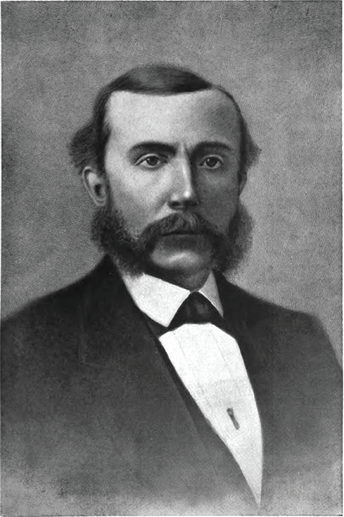 John D. Rockefeller, founder of Standard Oil. c. 1872